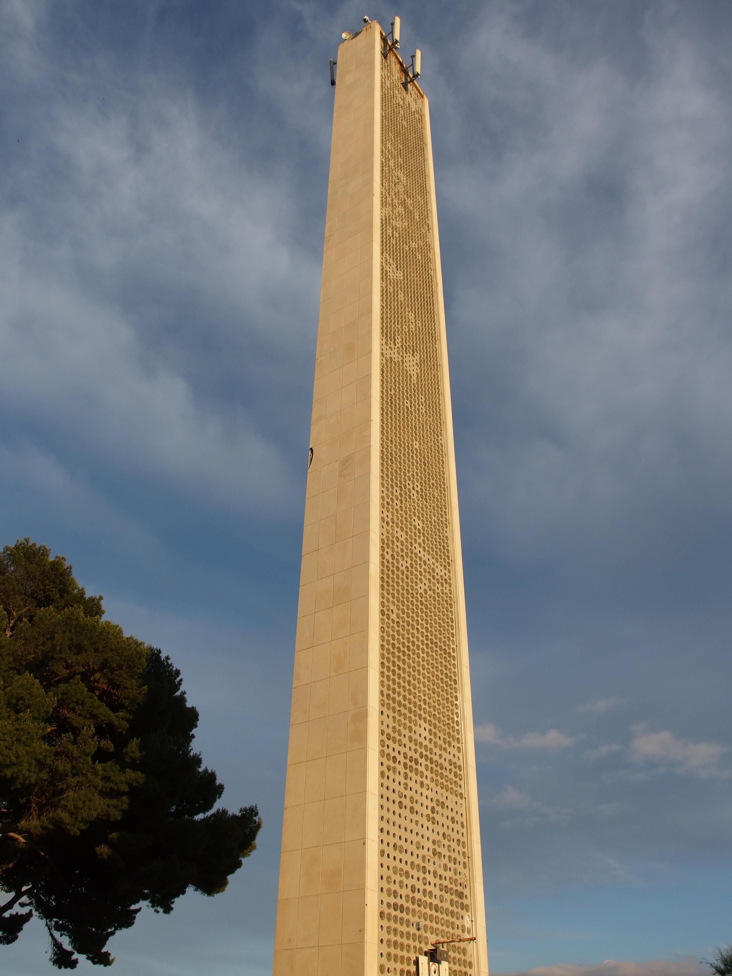 2013-06-02 in Split.